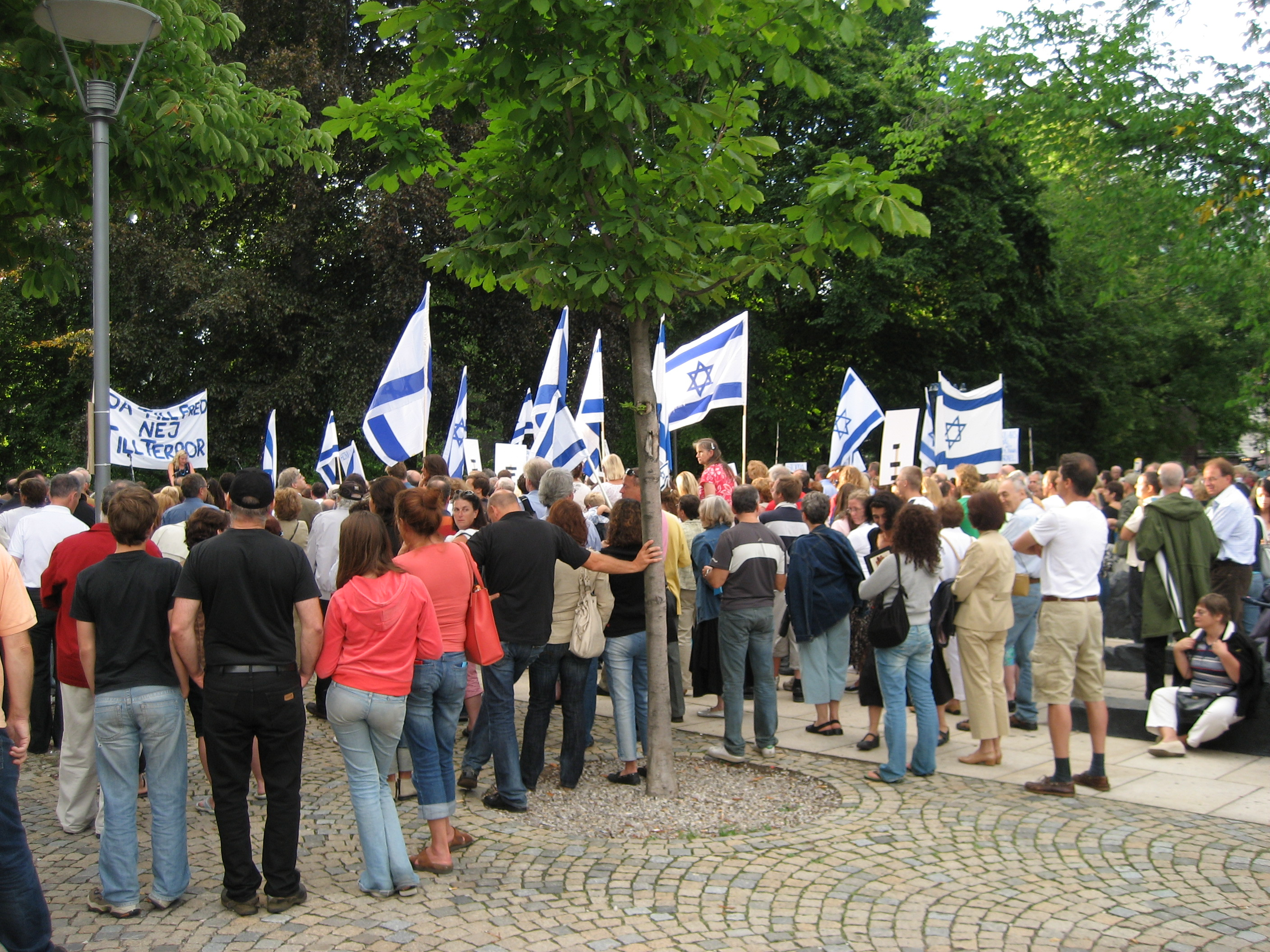 A manifestation in support of Israel, held at Raoul Wallenbergs Torg in Stockholm, Sweden, on August 20, 2006.